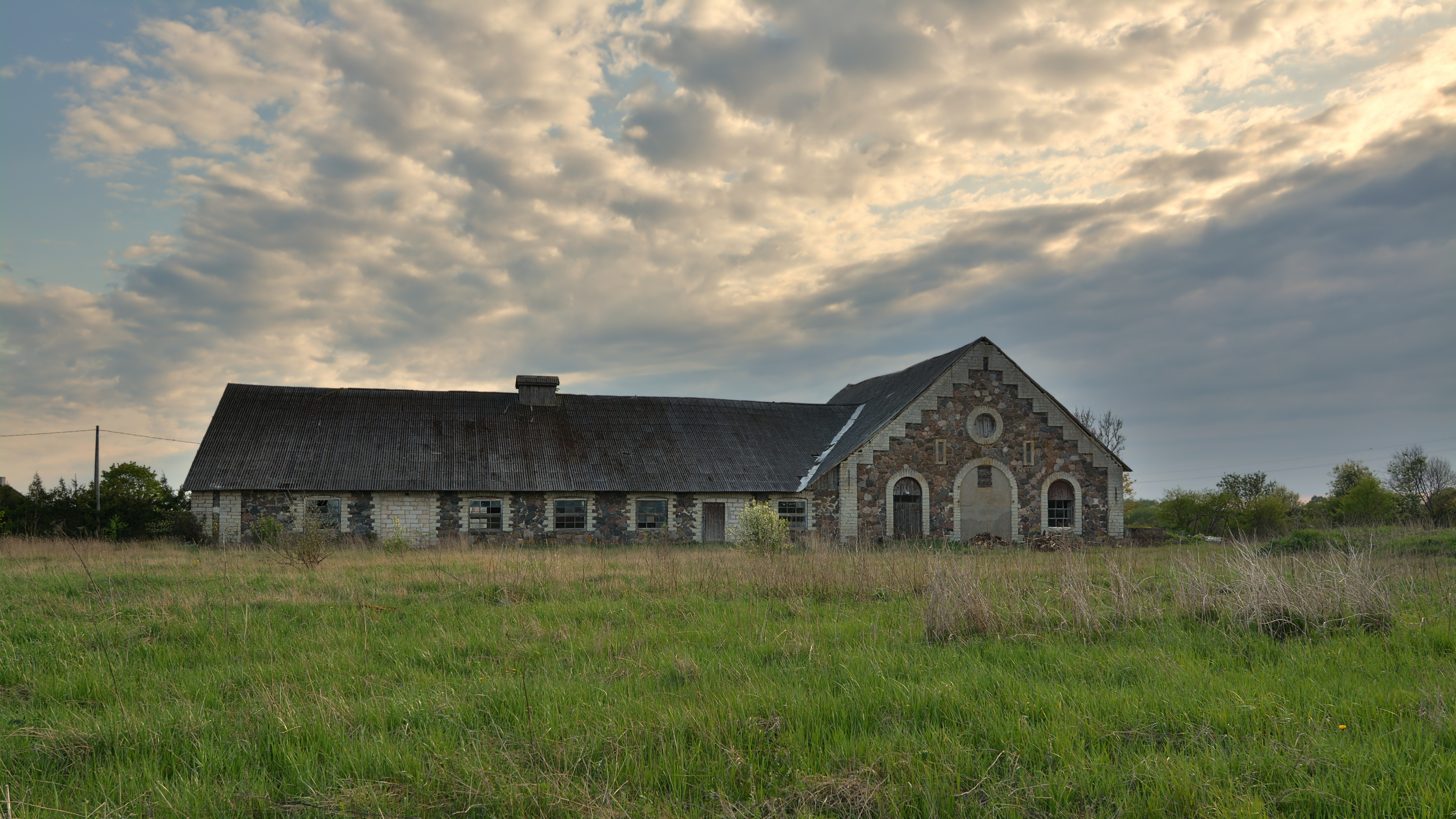 Humala manor cowhouse